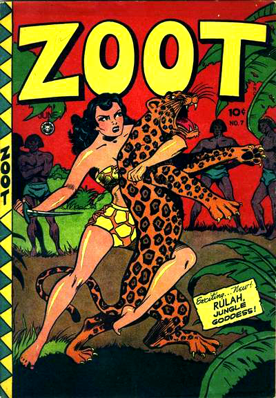 Cover of Fox Feature Syndicate's Zoot #7 (1947), featuring Rulah.